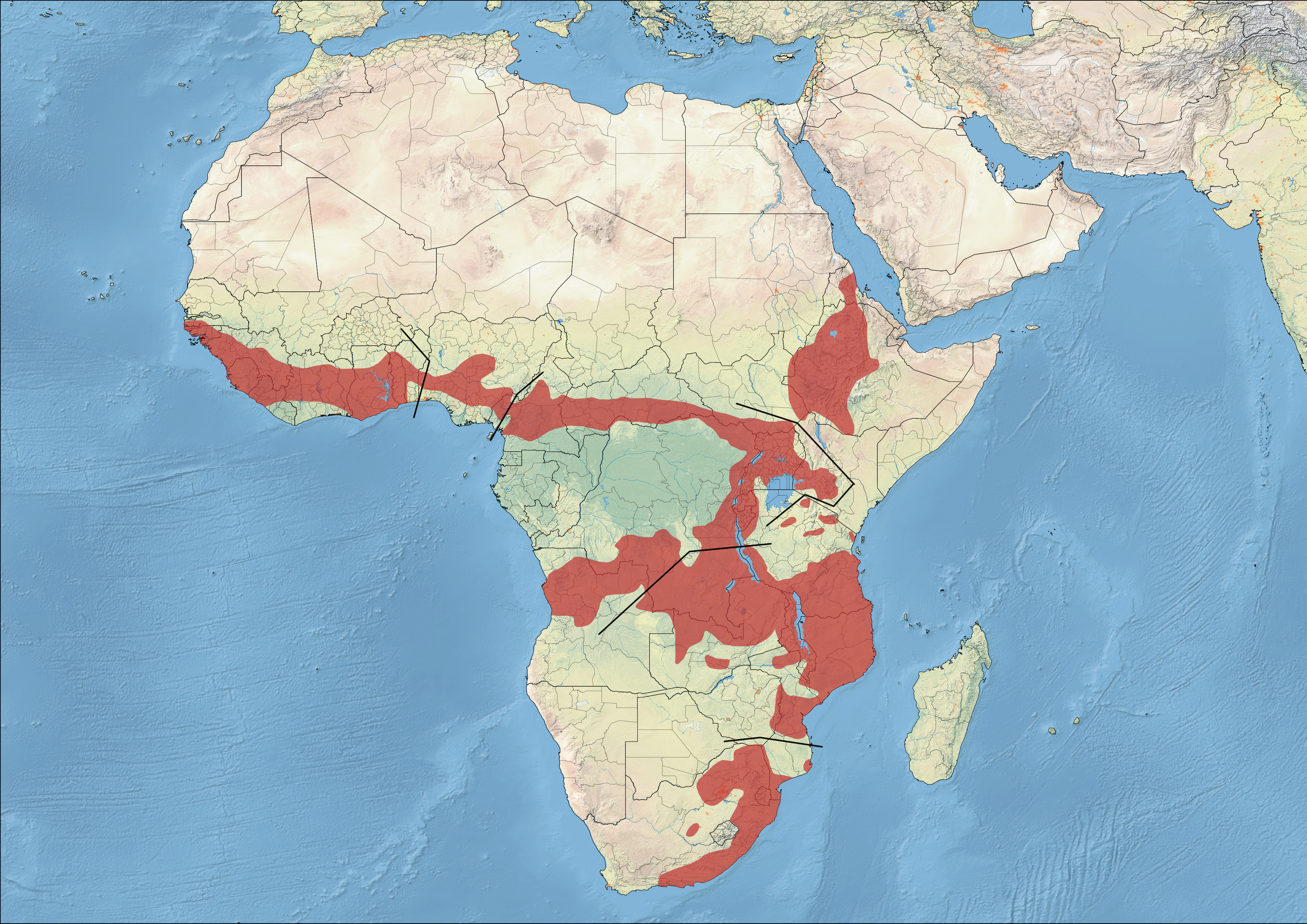 The IUCN Distribution of Blue-billed Firefinch Maroon = Resident Purple = Breeding Orange = Non-breeding Hatched = Passage Grey = Possibly Extinct Blue = Introduced